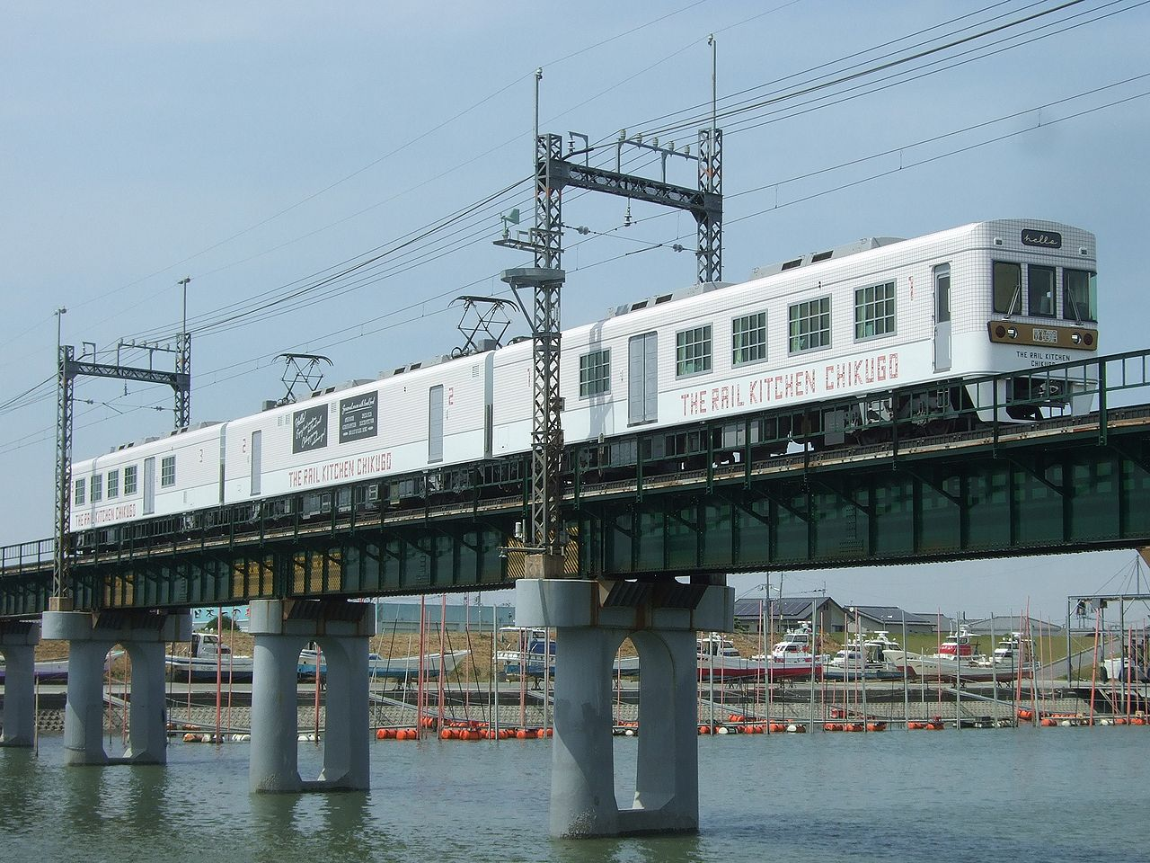 Nishi Nippon Railroad EMU Type6000 "THE RAIL KITCHEN CHIKUGO" / Formation:6053-6353-6553 / Location:Between Nishitetsu Nakashima Station and Enoura Station, Nishitetsu Tenjin Omuta Line, Yanagawa City, Fukuoka, Japan.